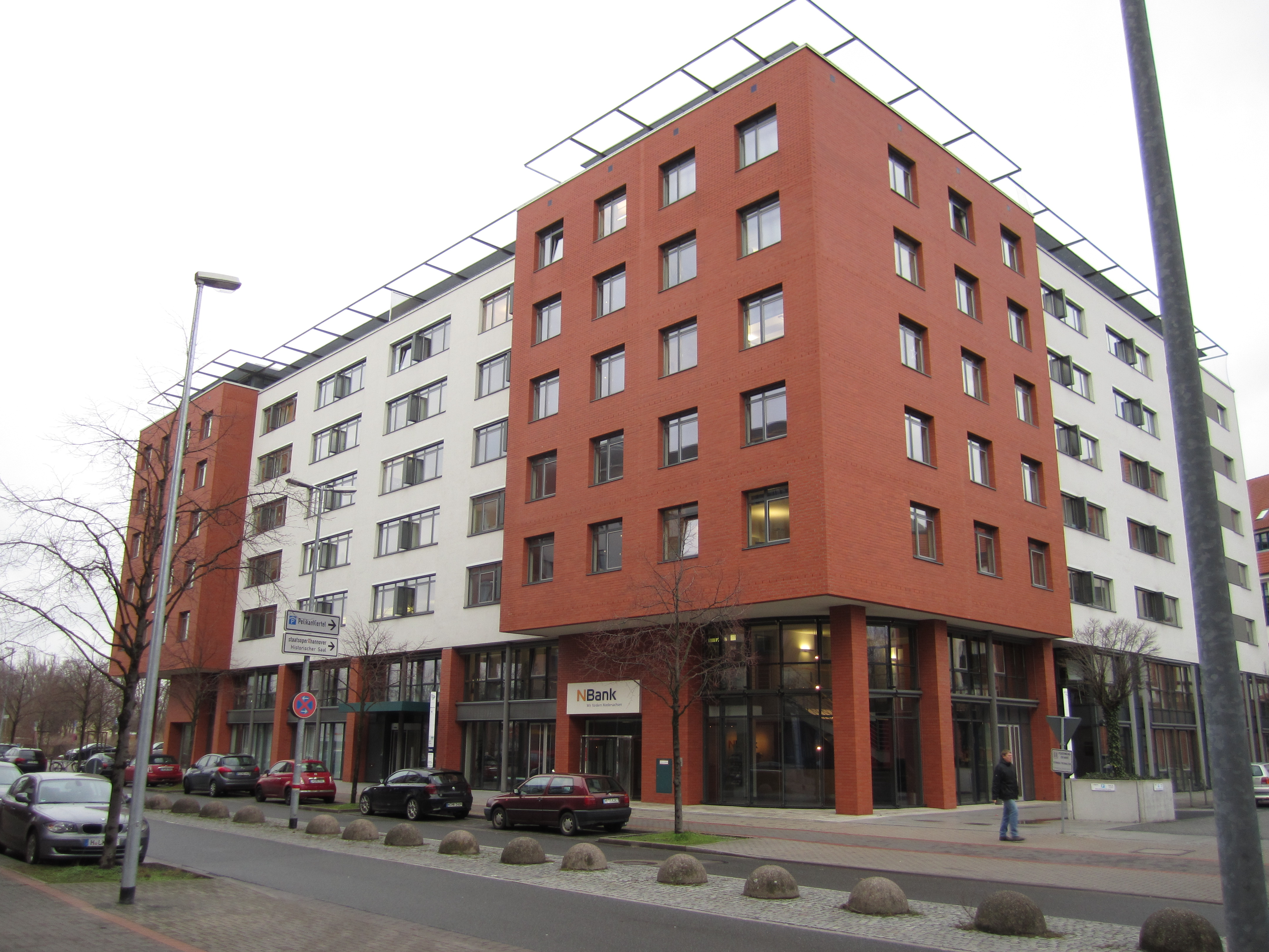 NBank office, Günther-Wagner-Allee 12, Hanover, Germany.